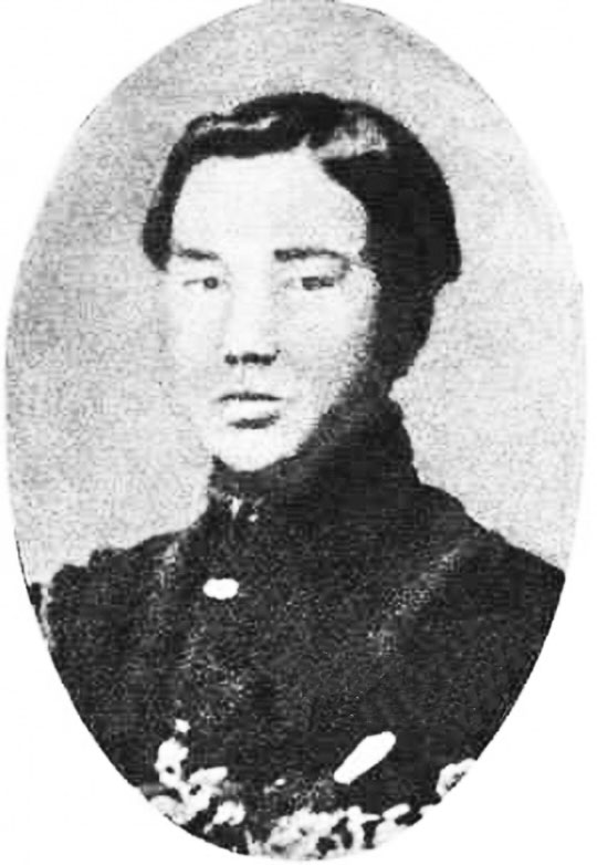 Liu Fu-Chi(1884-1911), a Chinese revolutionary. Bân-lâm-gú: Lâu ho̍k-ki(1884-1911), Tiong-kok Tshing-tiâu sî ê 1-ê kik-bīng-tsiá. 劉復基，中國清朝時的一个革命者。